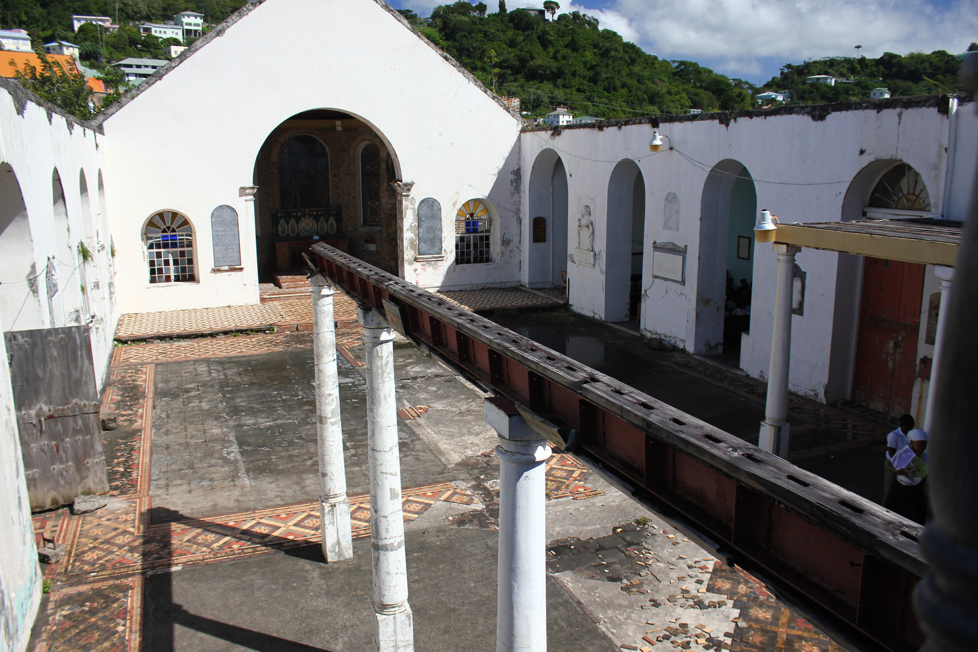 The remains of the St George's Anglican Church after Hurricane Ivan destroyed it in 2004. The church was built in 1825. It is still being used informally by locals for both prayer as well as school classes. During my visit, two small groups of children of the neighboring school came in with their teacher and held class.